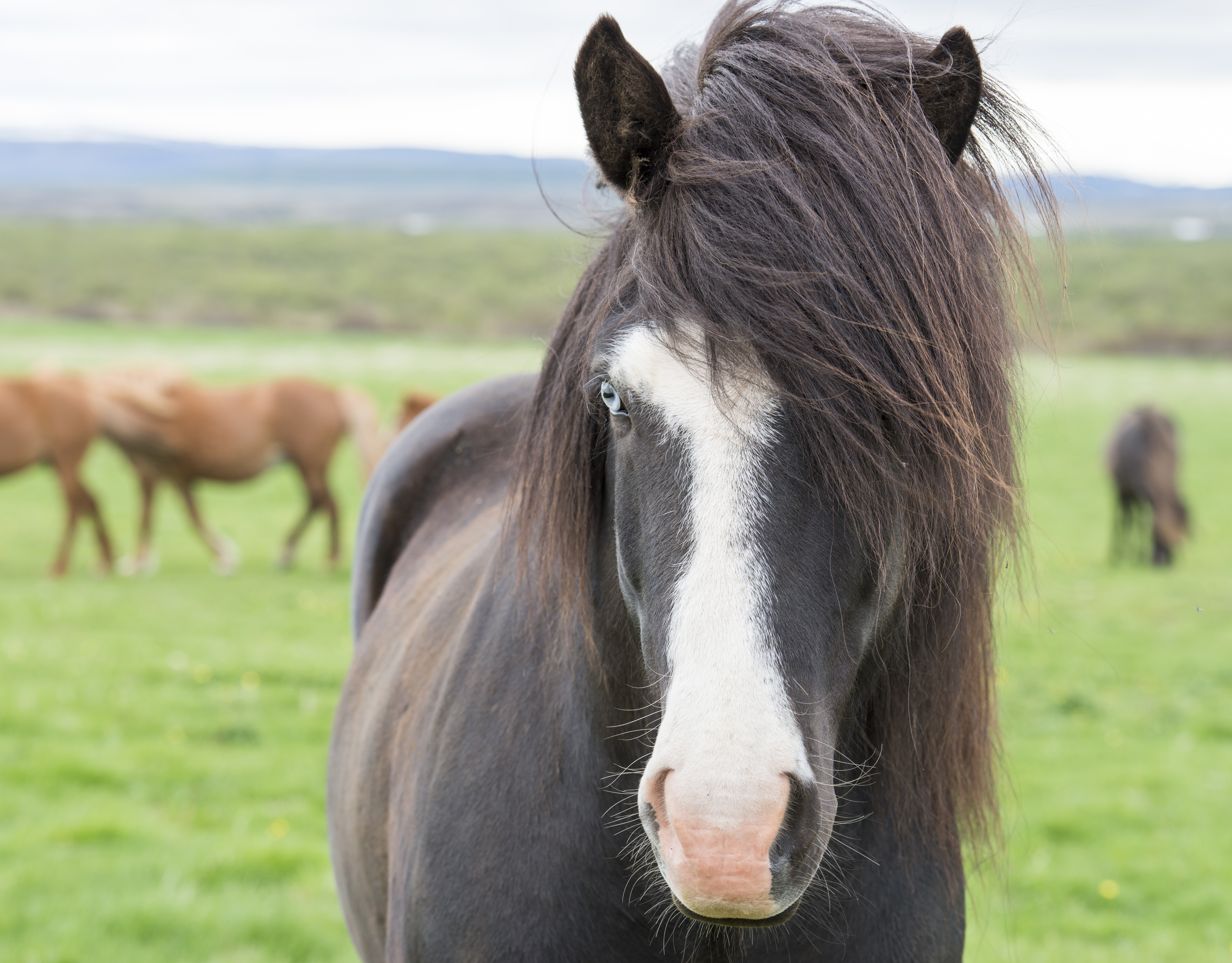 A blue eyed Icelandic horse.